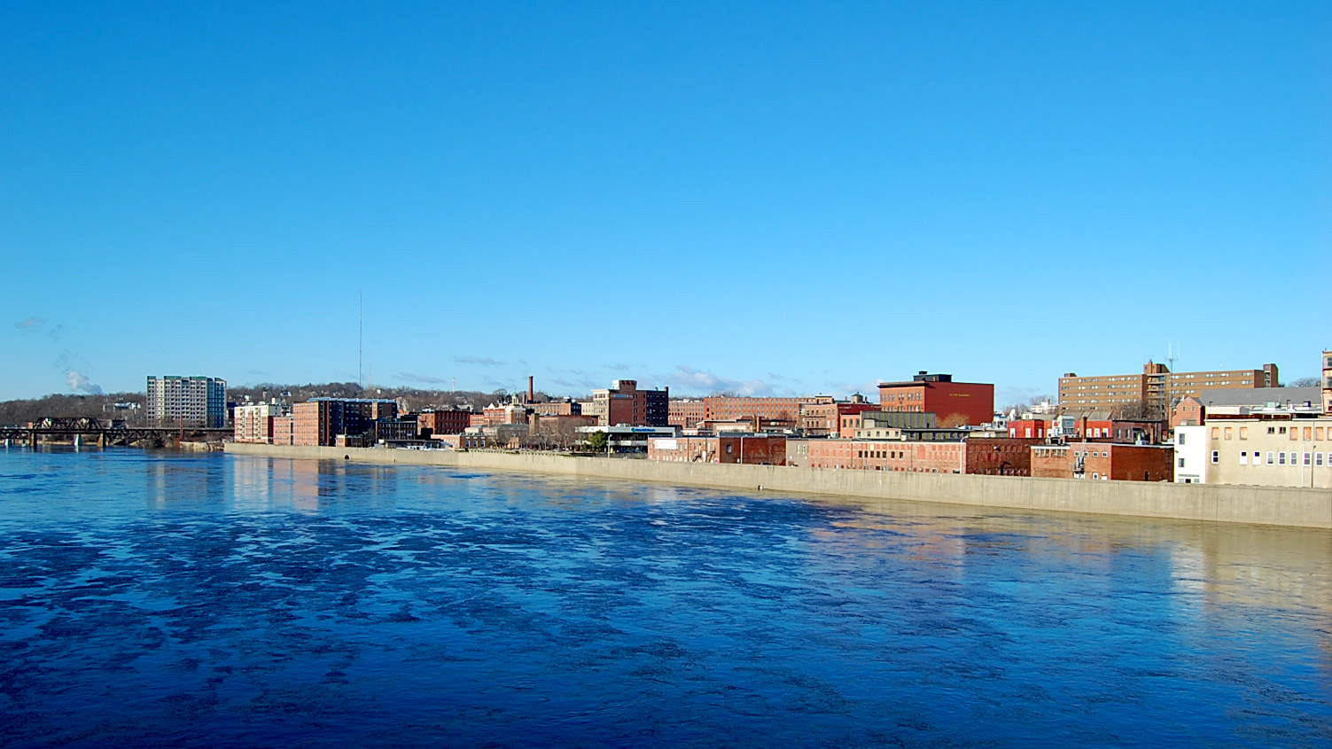 Looking northwards at Haverhill, Massachusetts across the Merrimack River on a blustery winter day.